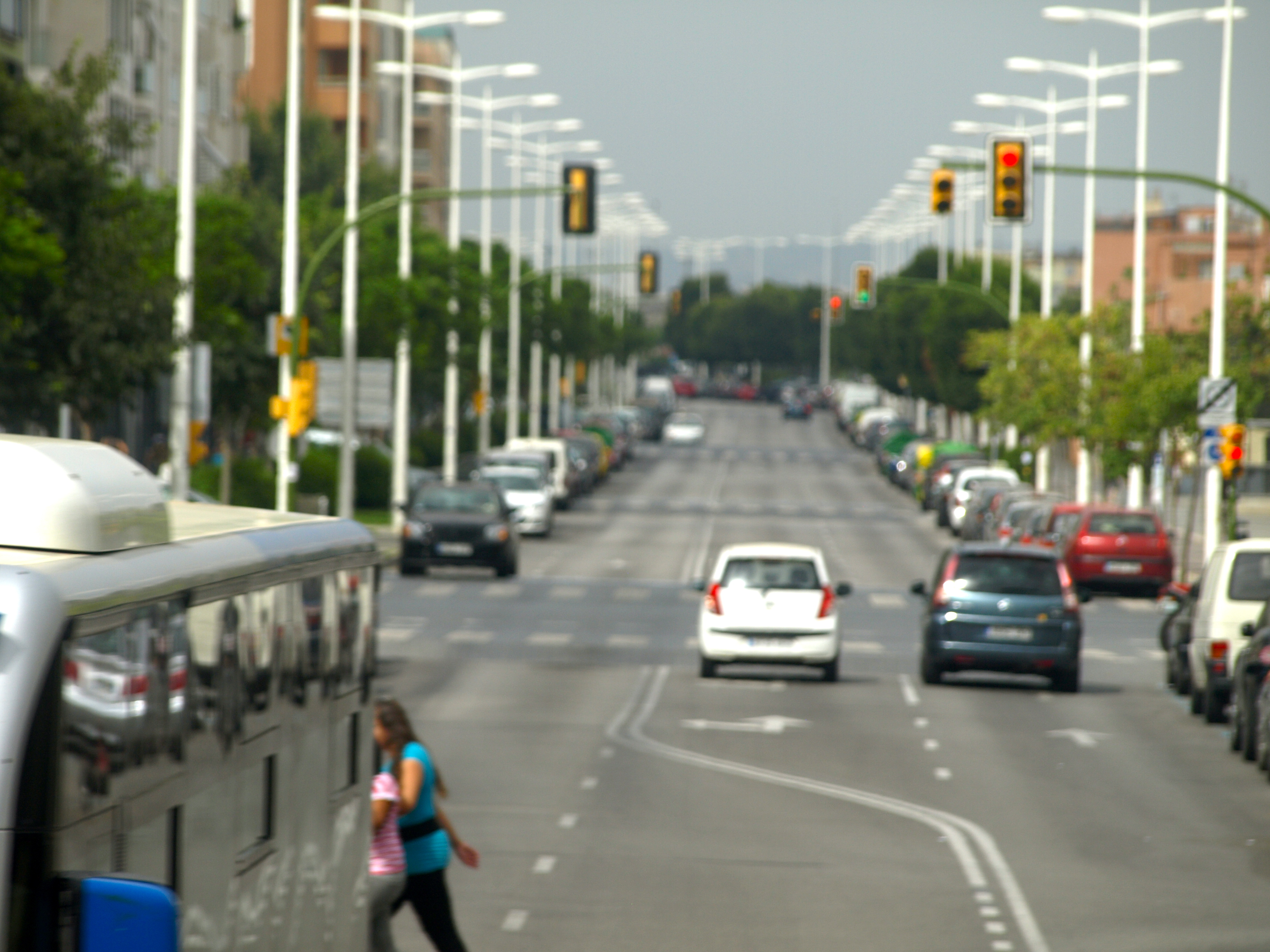 Jacint Verdaguer street, Palma